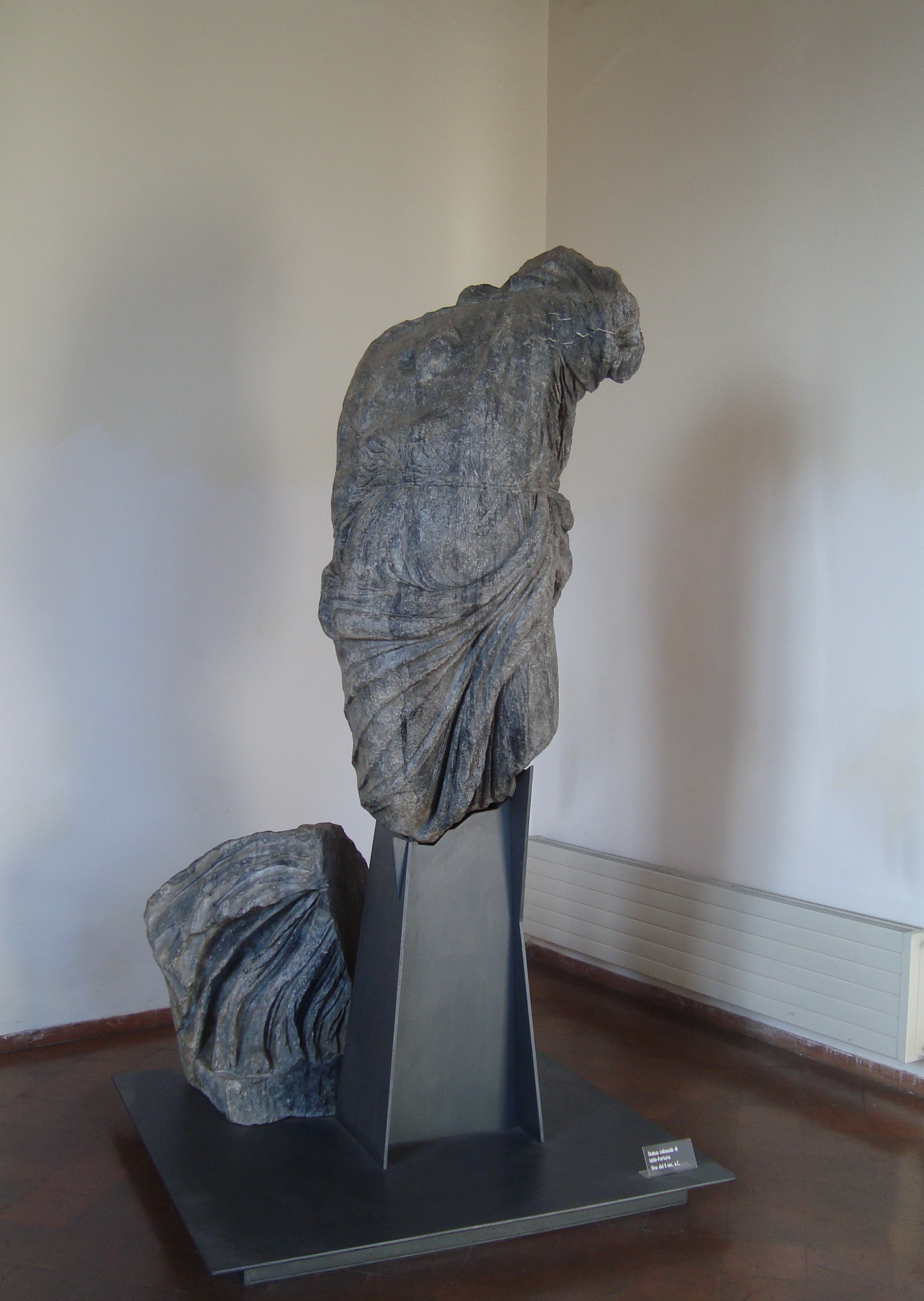 The Statue of the Fortuna Primigenia in the collection of the Palazzo Barberini in Palestrina (IInd b.c.)